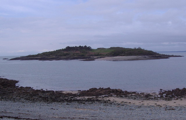 Ardwall Isle from the Carrick Shore. This view is Ardwall Isle from the Carrick shore. This isle is one of The Islands of Fleet.